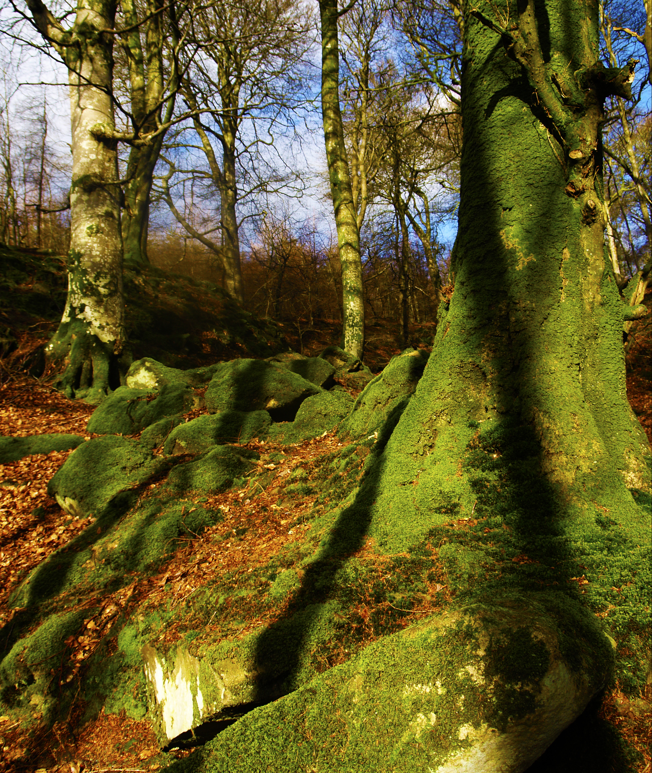 Ravensdale Park